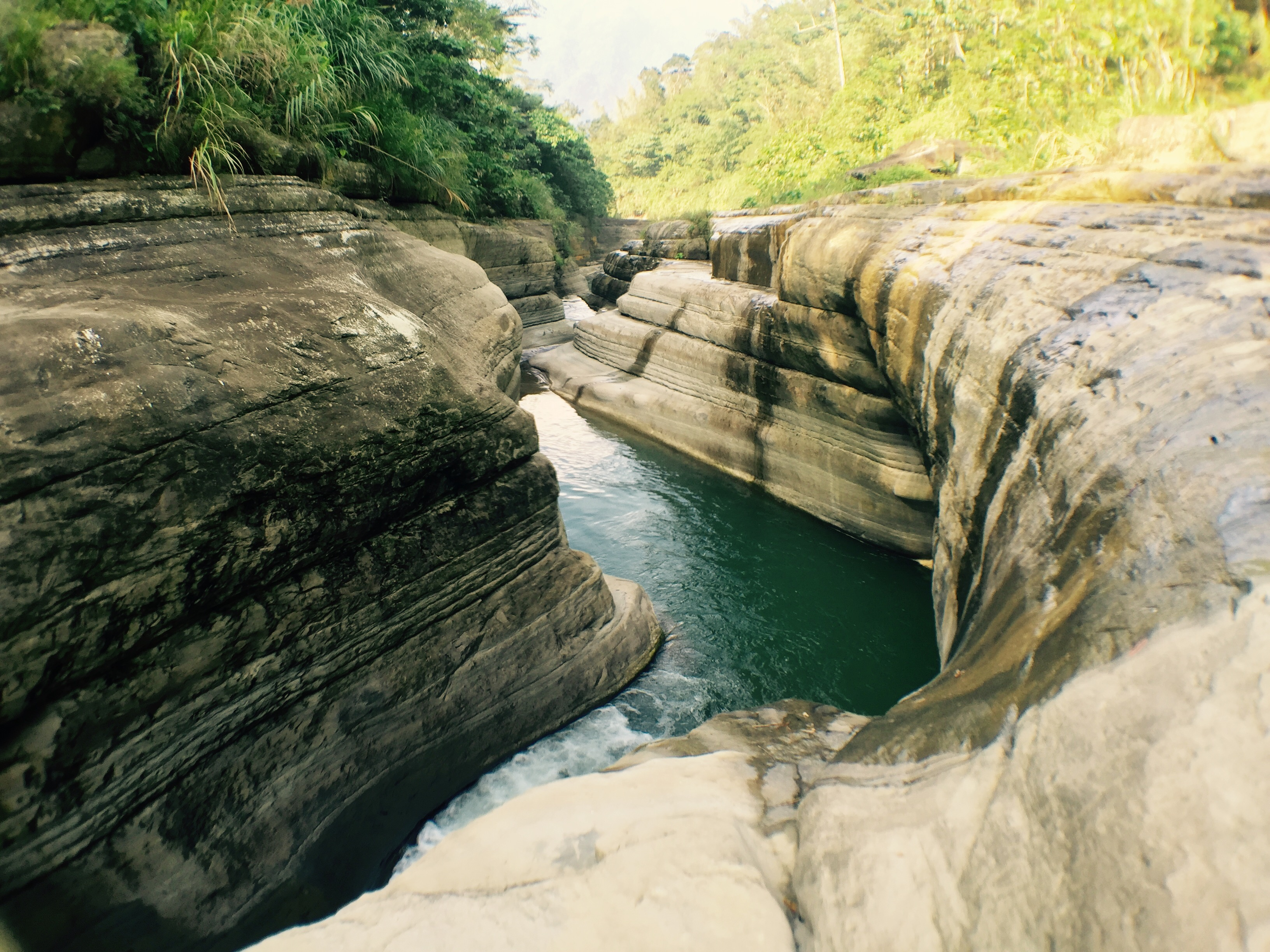 Turquoise colored water of the Shimankeng River as it flows through Wannian Canyon.